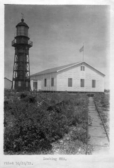 Mona Island Lighthouse, in Puerto Rico. Photo taken in 1913